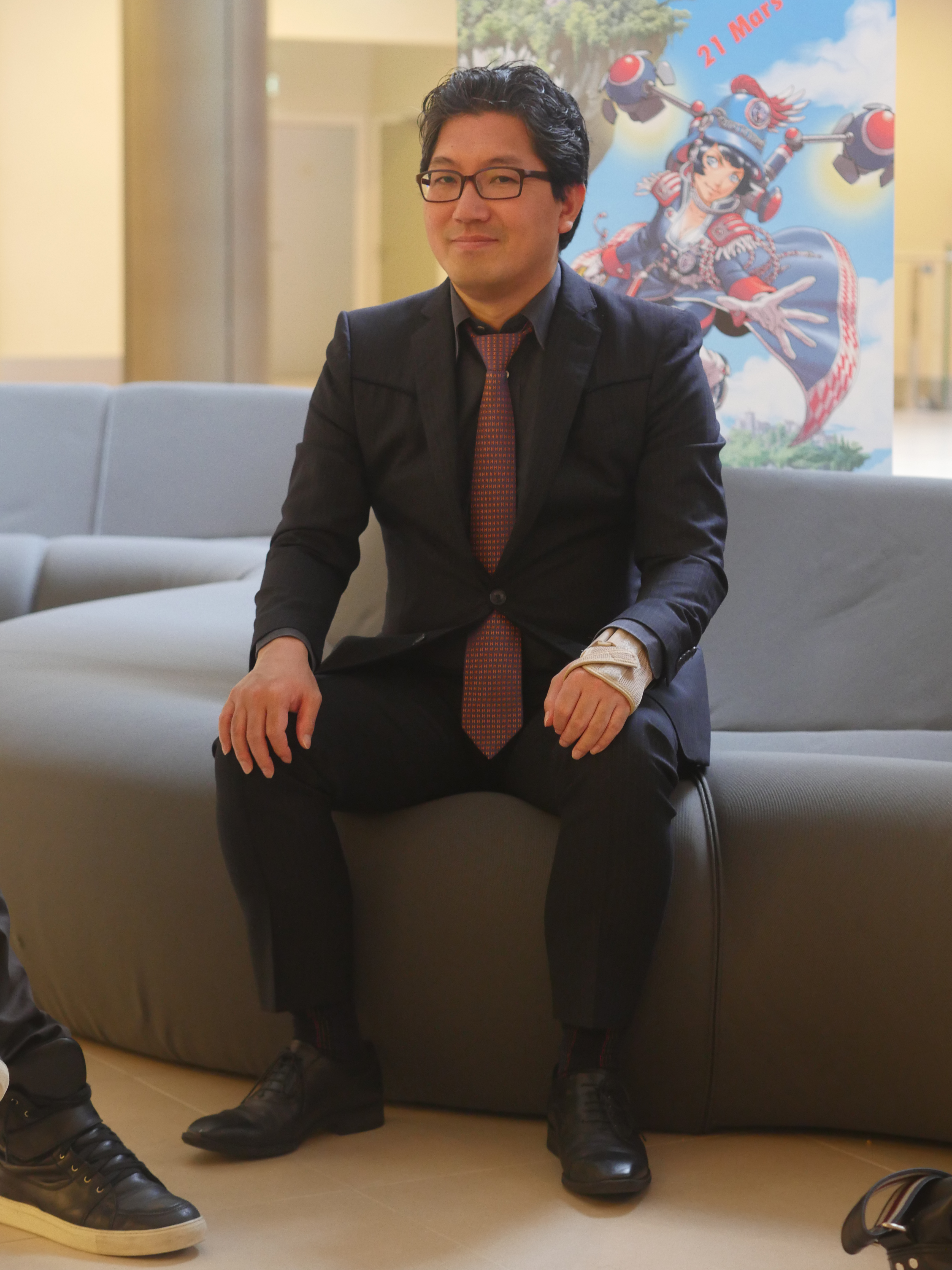 photograph taken at the 2015 edition of the "Monaco Anime Game International Conferences" (MAGIC) organized by Shibuya International in Monaco.